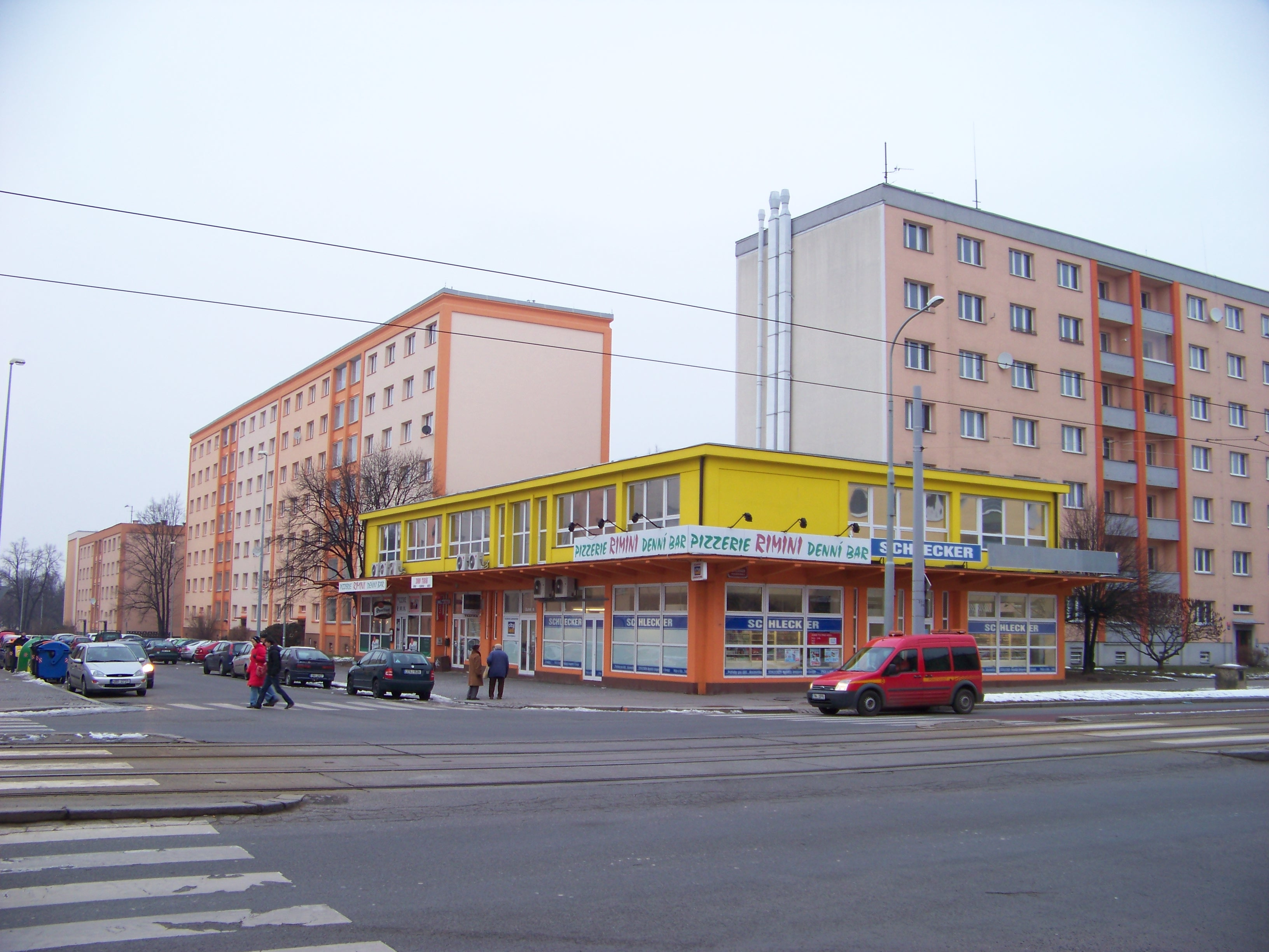 Prague-Veleslavín, the Czech Republic. Petřiny Housing Estate, Na Petřinách and Čílova street.